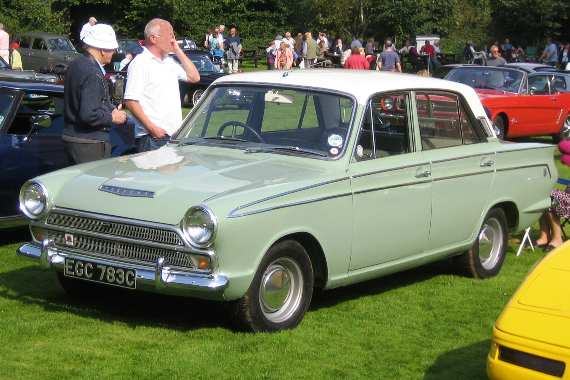 Ford Cortina GT Mk I (post facelift) in north Essex